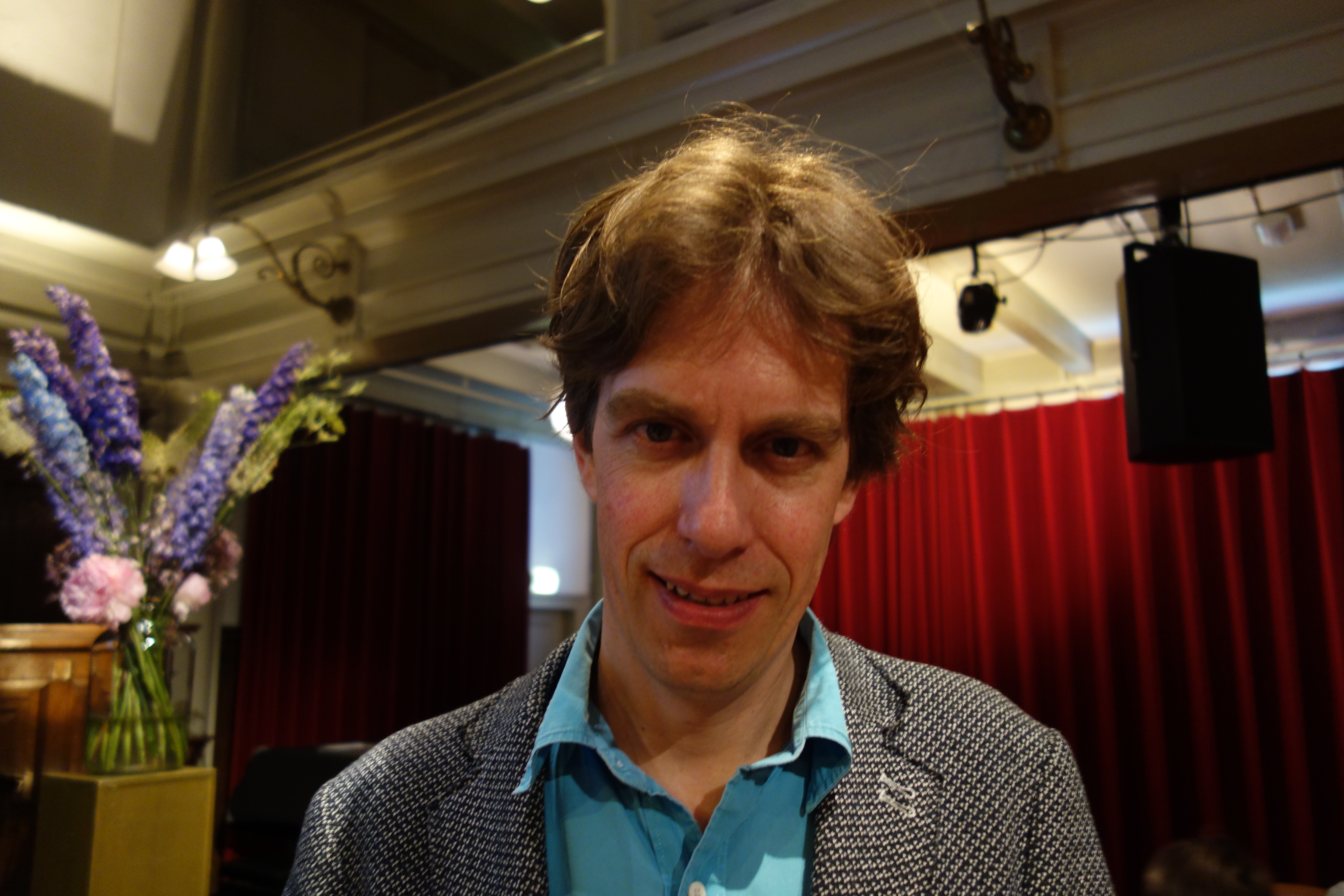 Dutch physicist Alexander van Oudenaarden (Amsterdam, June 2017)